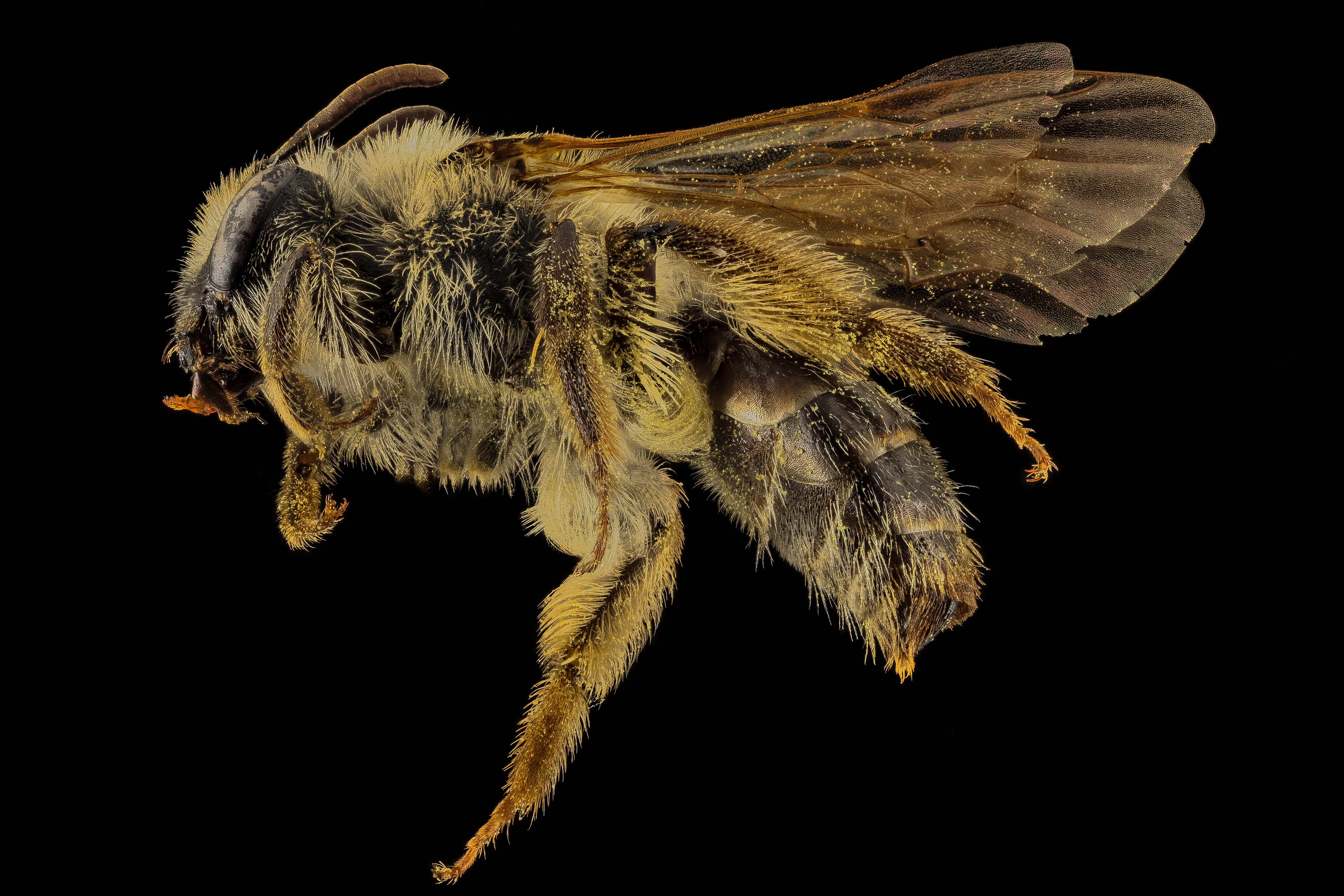 A rather pollen riddled specimen, this uncommon (at least in Maryland) species is uniquely outfit with a long-strap like labral process...for those of you who are technically inclined. Photograph by Wayne Boo Canon Mark II 5D, Zerene Stacker, 65mm Canon MP-E 1-5X macro lens, Twin Macro Flash, F5.0, ISO 100, Shutter Speed 200, link to a .pdf of our set up is located in our profile